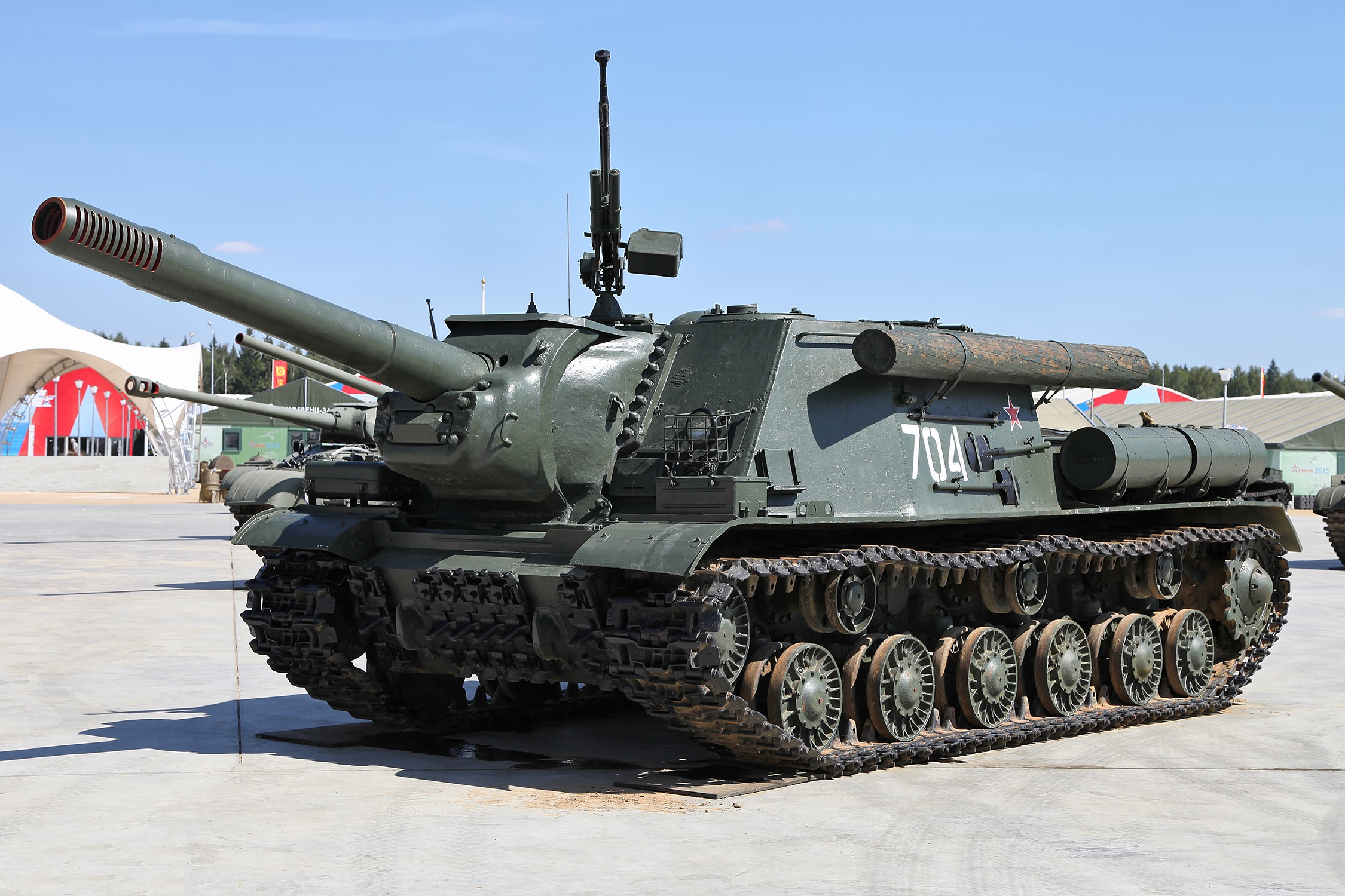 ISU-152M self-propelled artillery